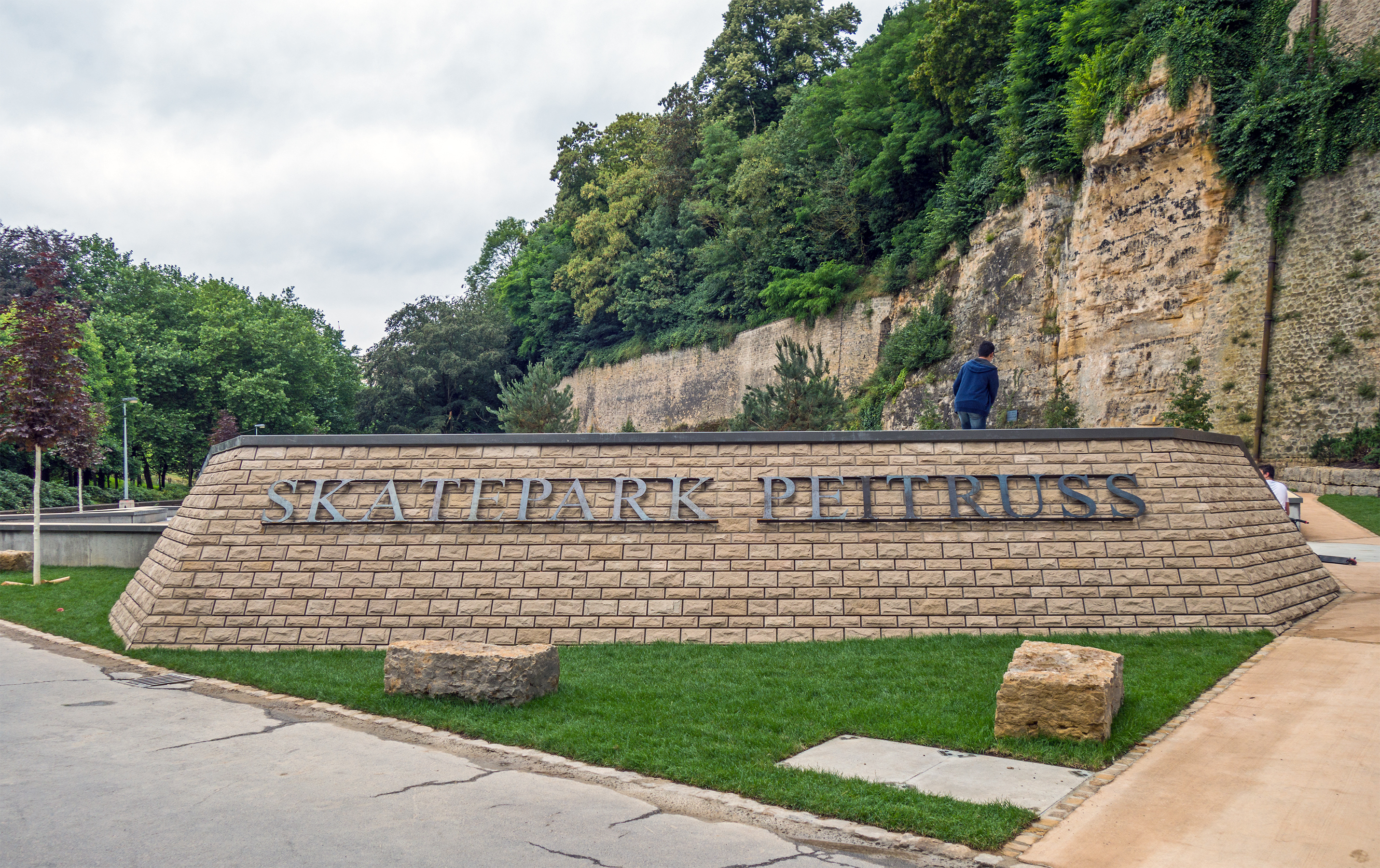 Skatepark Péitruss in the Pétrusse valley in Luxembourg-Grund